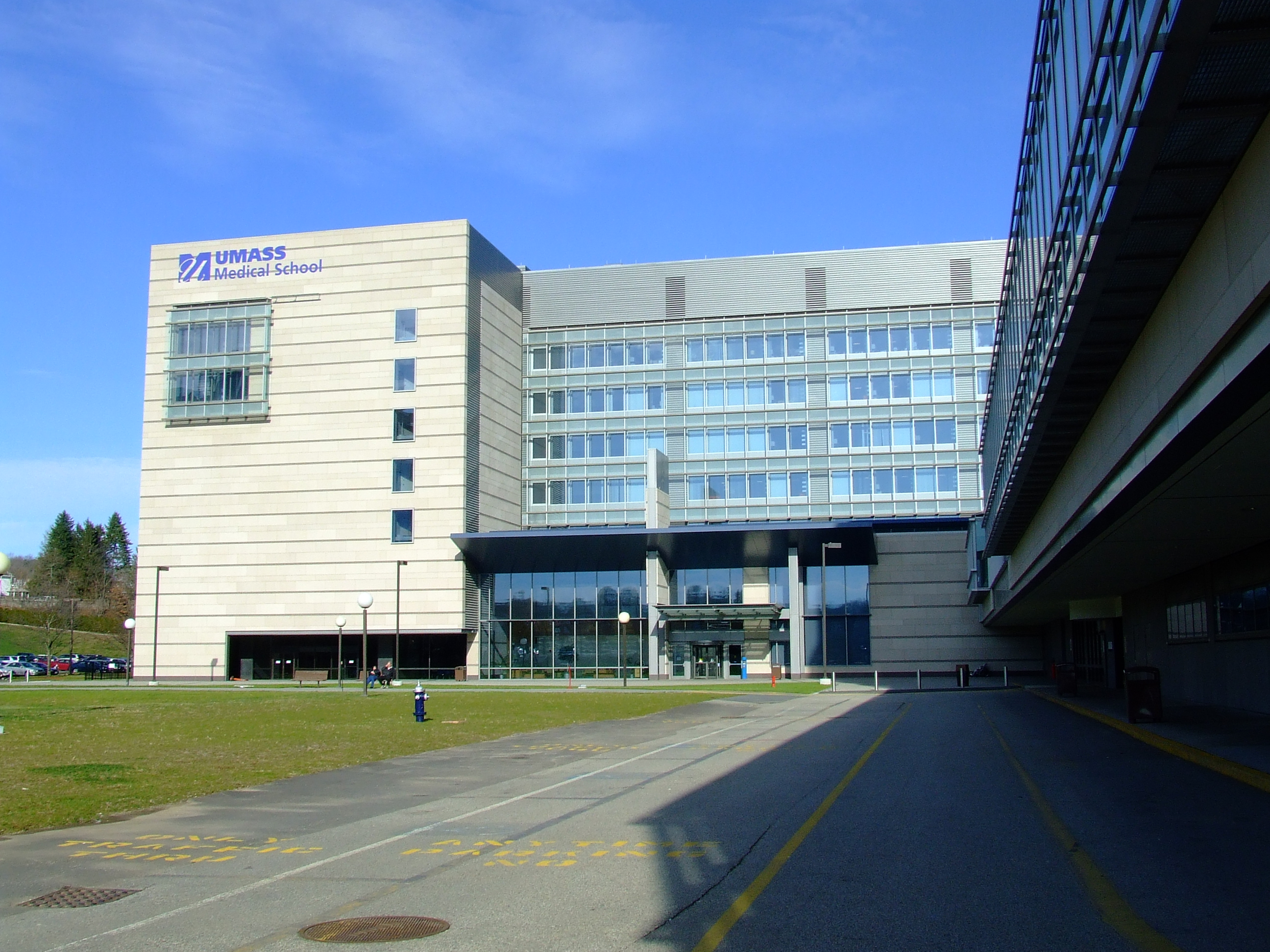 University of Massachusetts Medical School, Worcester, MA; Main building, South side.